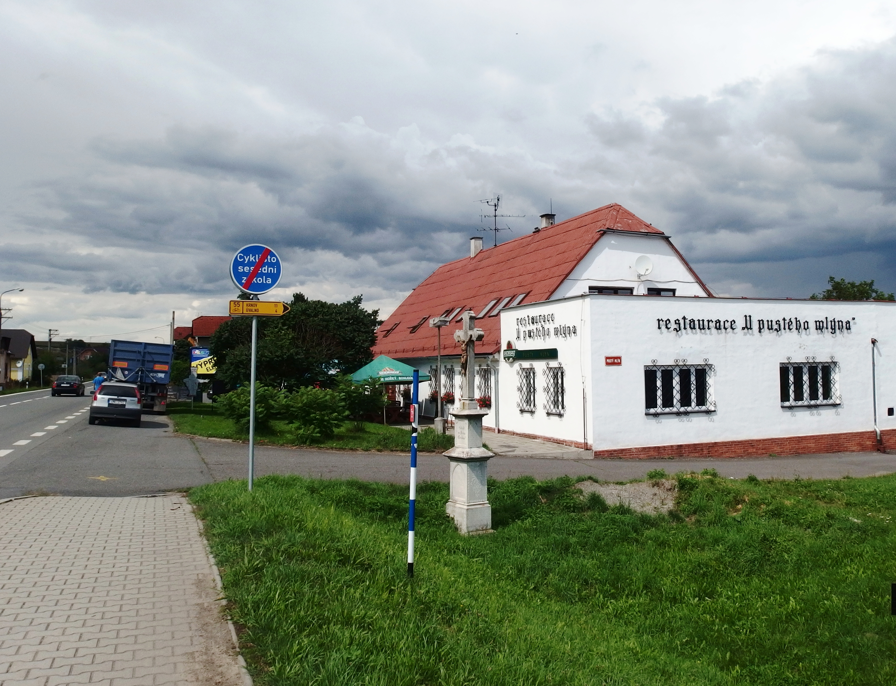 Brumovice, Opava District, Czech Republic, part Pustý Mlýn.